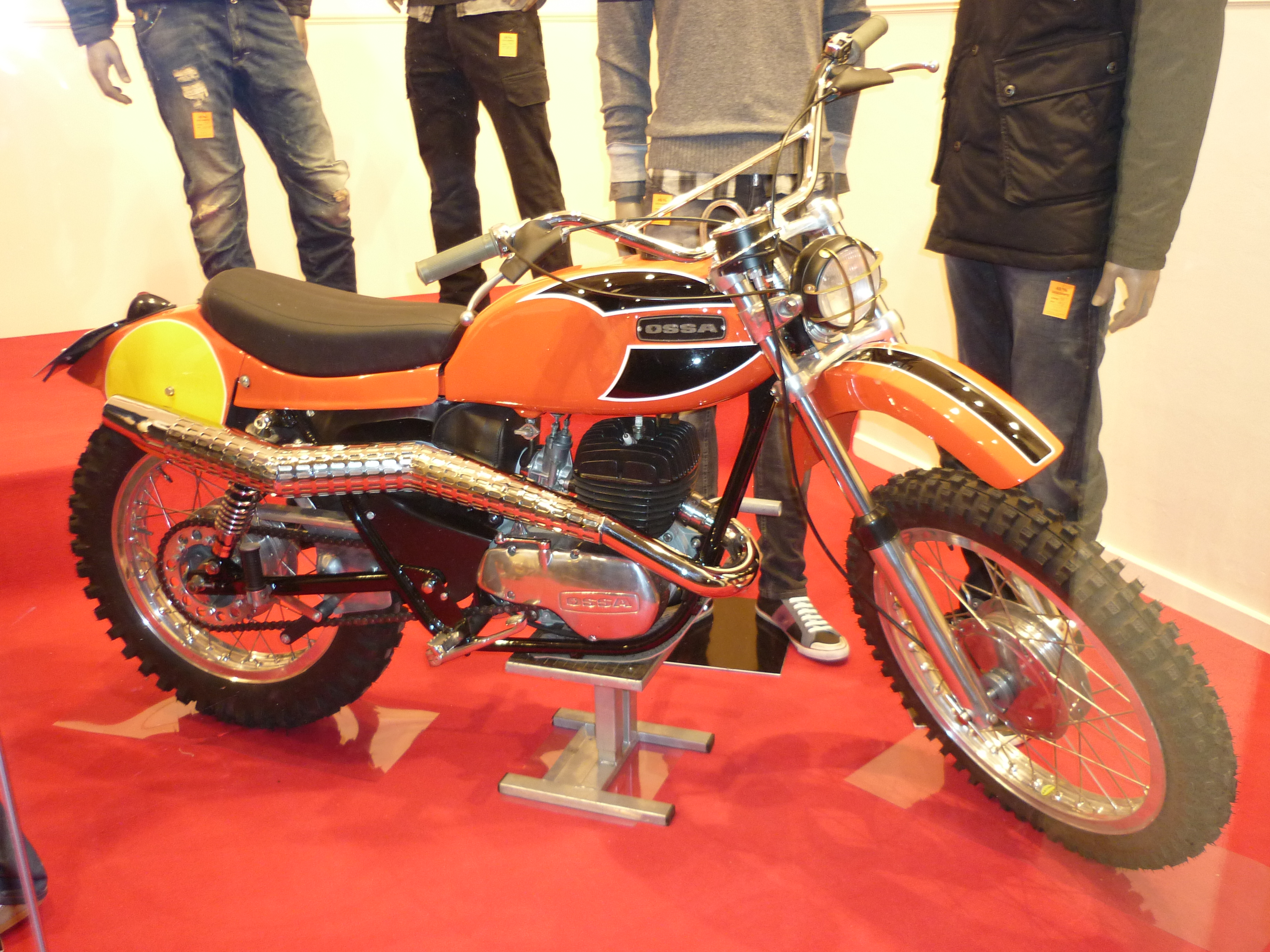 OSSA Enduro E-71 250cc (1971) in a shopfront in Mataró (Catalonia).